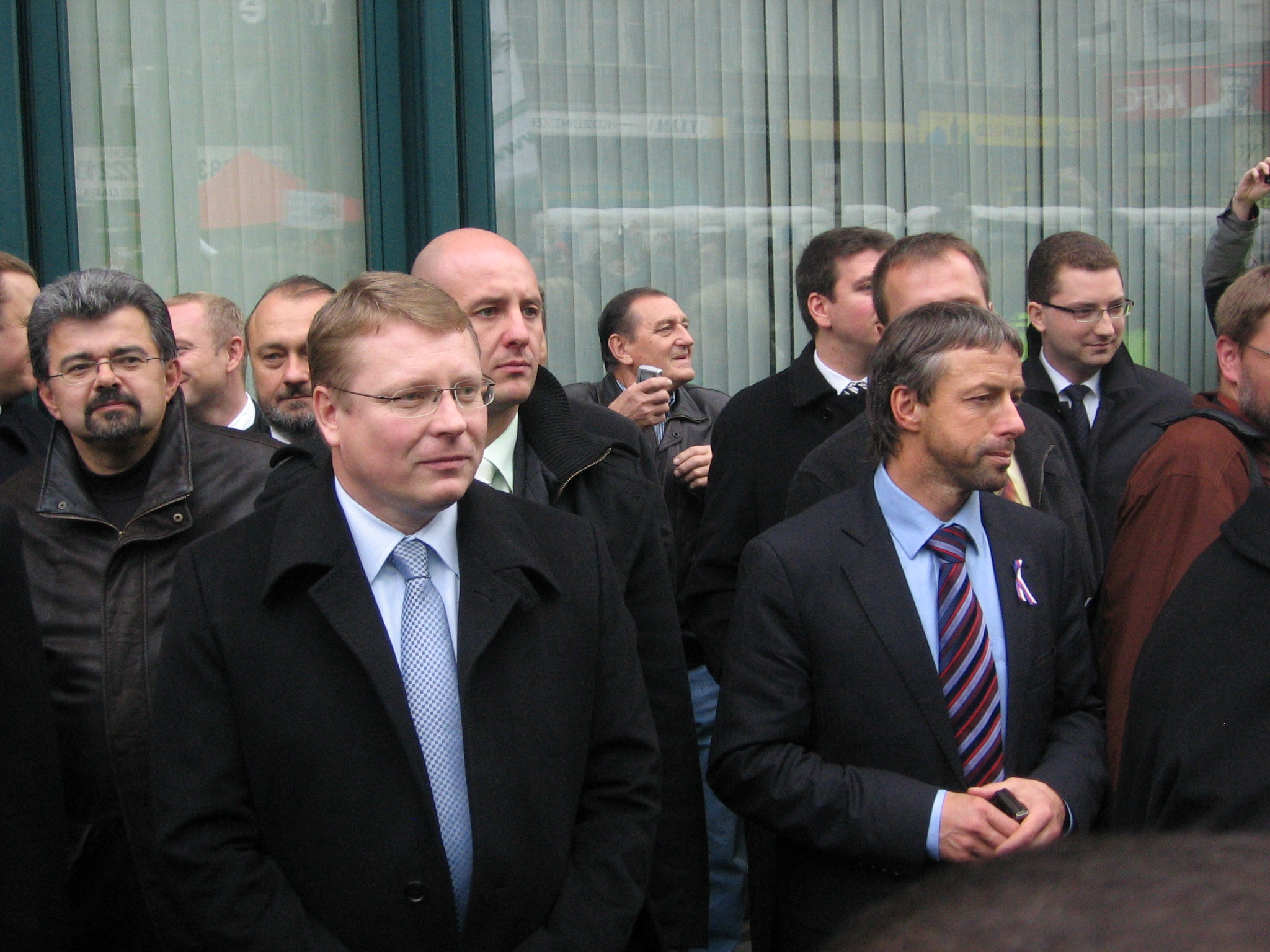 Czech politicians Jiří Weigl, Petr Hejma, Pavel Bém